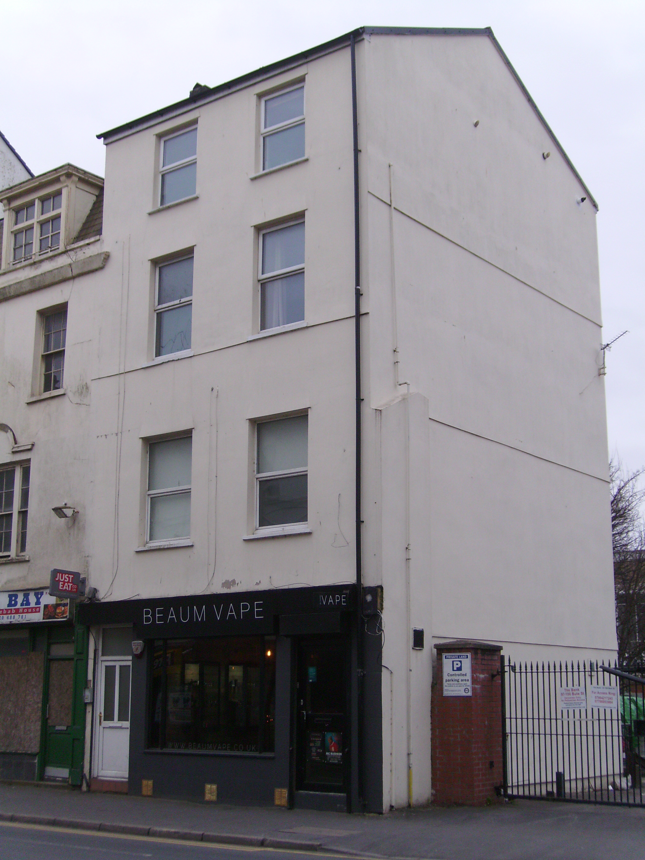 Beaum Vape, 7 James Street, Cardiff, CF10 5ER.